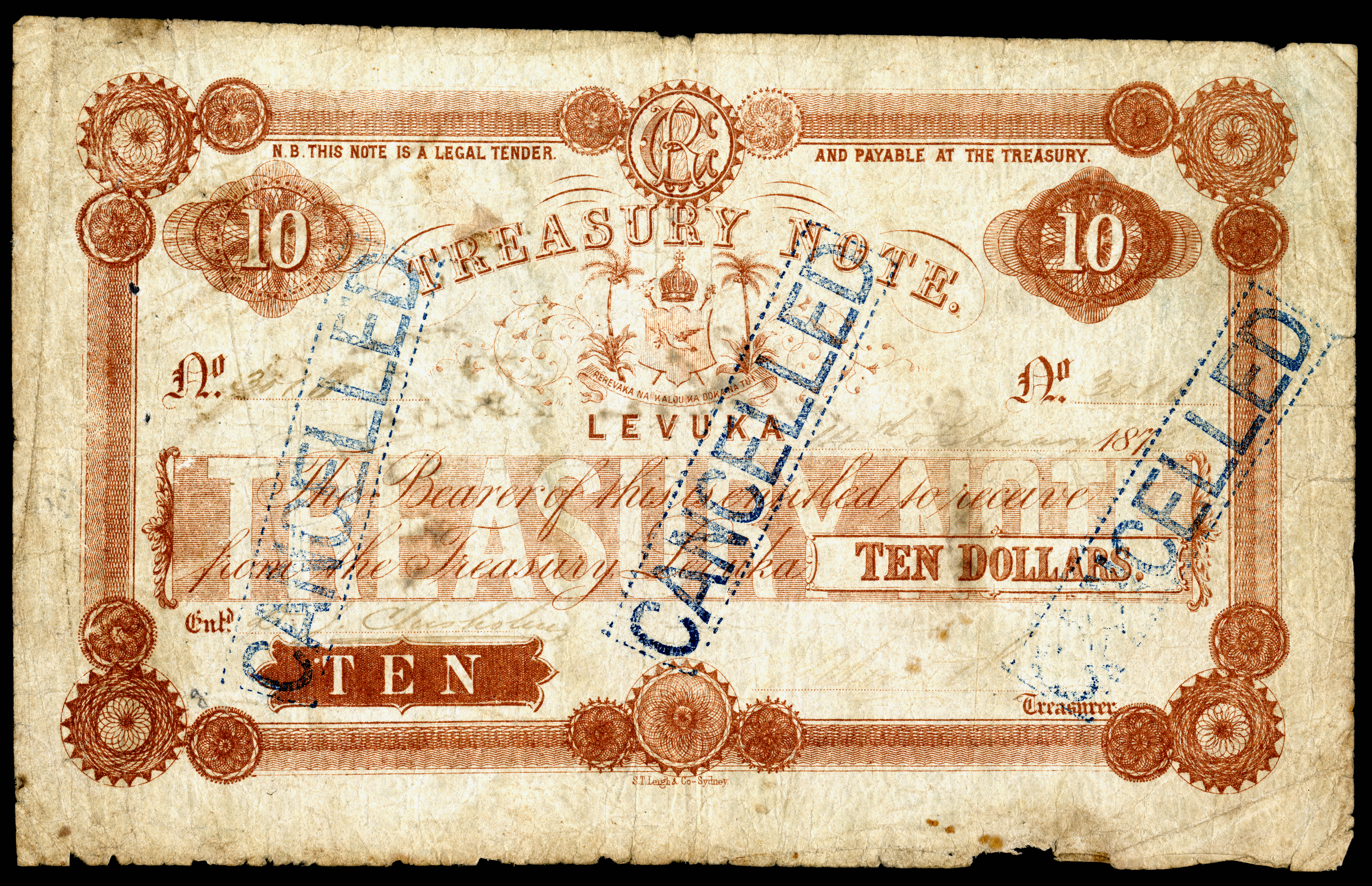 Ten Fijian dollar Treasury Note, payable at Levuka, issued 14 February 1872.